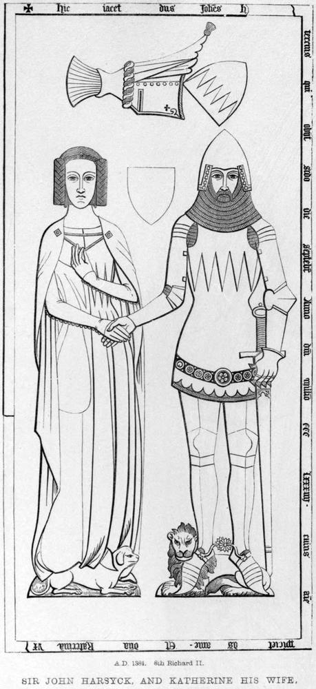 1384 monumental brass of Sir John Harsyck and his wife Katherine, South Acre Church, Norfolk. On his tabard and on a shield above and on the sinister half of his wife's robe are shown the arms of Harsick: Or, a chief indented sable. The dexter side of of his wife's robe displays A maunch, possibly the arms of the Hastings family. (Note: apparently an error by the brass-maker (Boutell's drawing correctly shows actual positions) as the husband's arms are always shown on the dexter side, the wife's on the sinister). On his helm above is the crest of Harsick: A plume (?). Latin inscription on ledger line, starting at top: Hic jacet D(omi)n(u)s Joh(ann)es H... tercius qui obiit secundo die Septembris Anno Domini millensimo CCC LXXXIIII cuius animae propitietur deus amen. Et Domina Katerina uxor (eius) .... ("Here lies Sir John H(arsyck) the third, who died on the second day of September in the year of our Lord the one thousandth three hundredth and eighty fourth, upon whose soul may God look with favour. And to Lady Katherine, his wife .....")